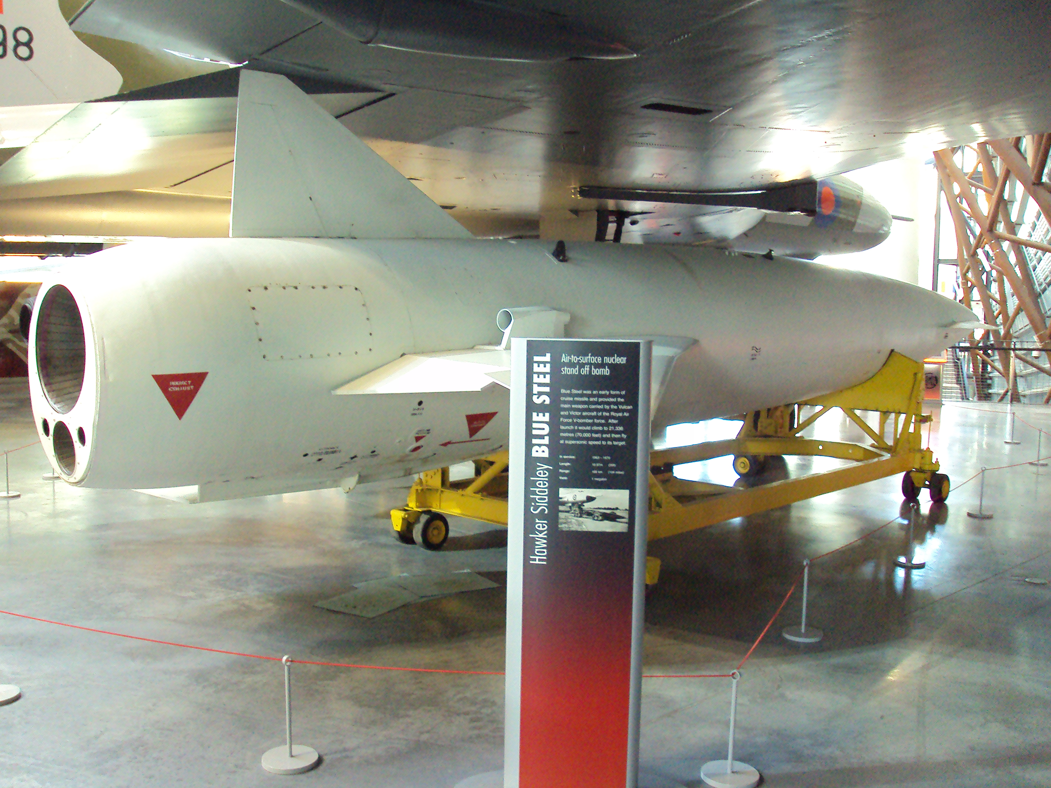 Hawker-Siddeley Blue Steel nuclear stand-off bomb. Photo taken at the RAF Museum Cosford, Shropshire, England.